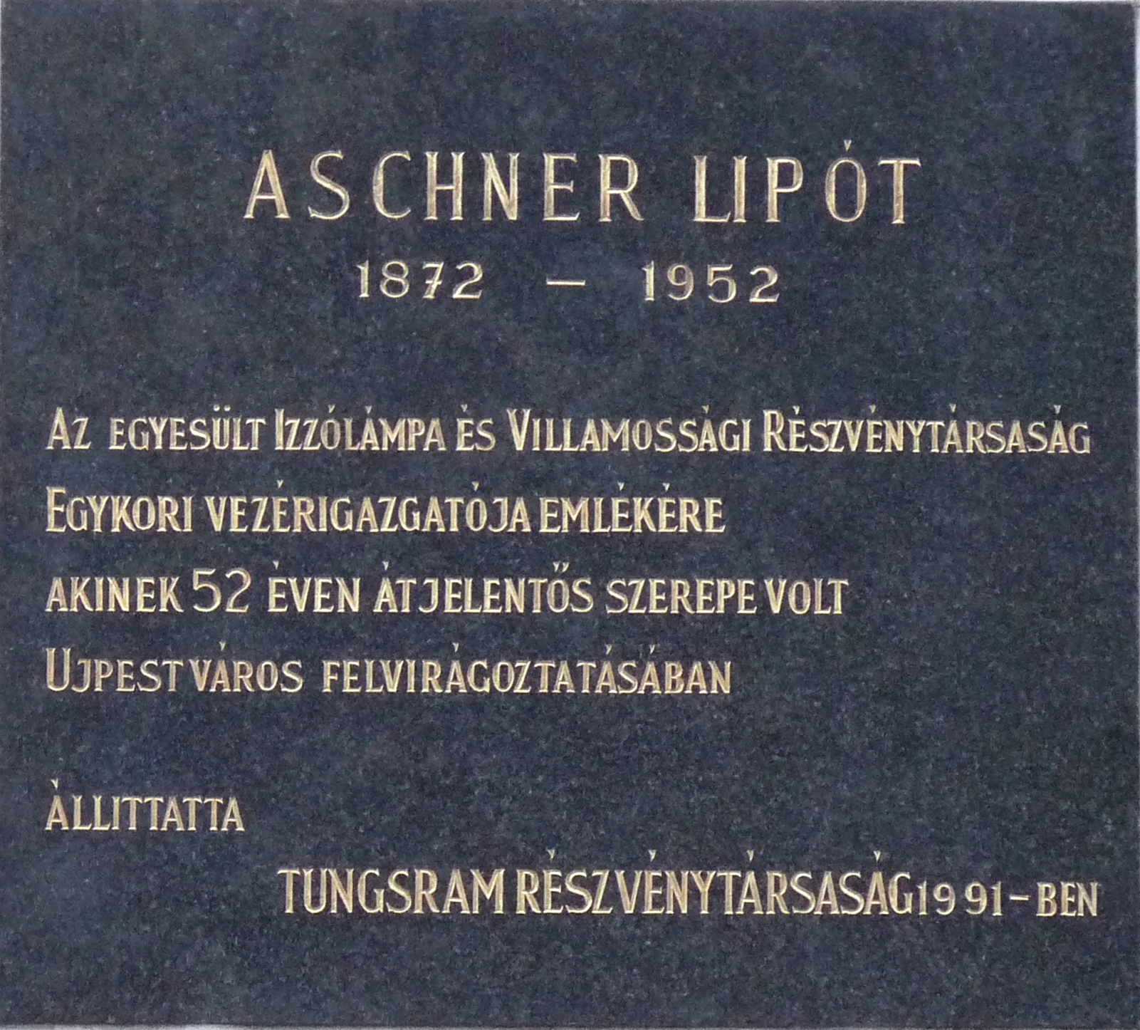 Lipót Aschner commemorative plaque in Budapest District IV, Aschner Lipót Square No 1.